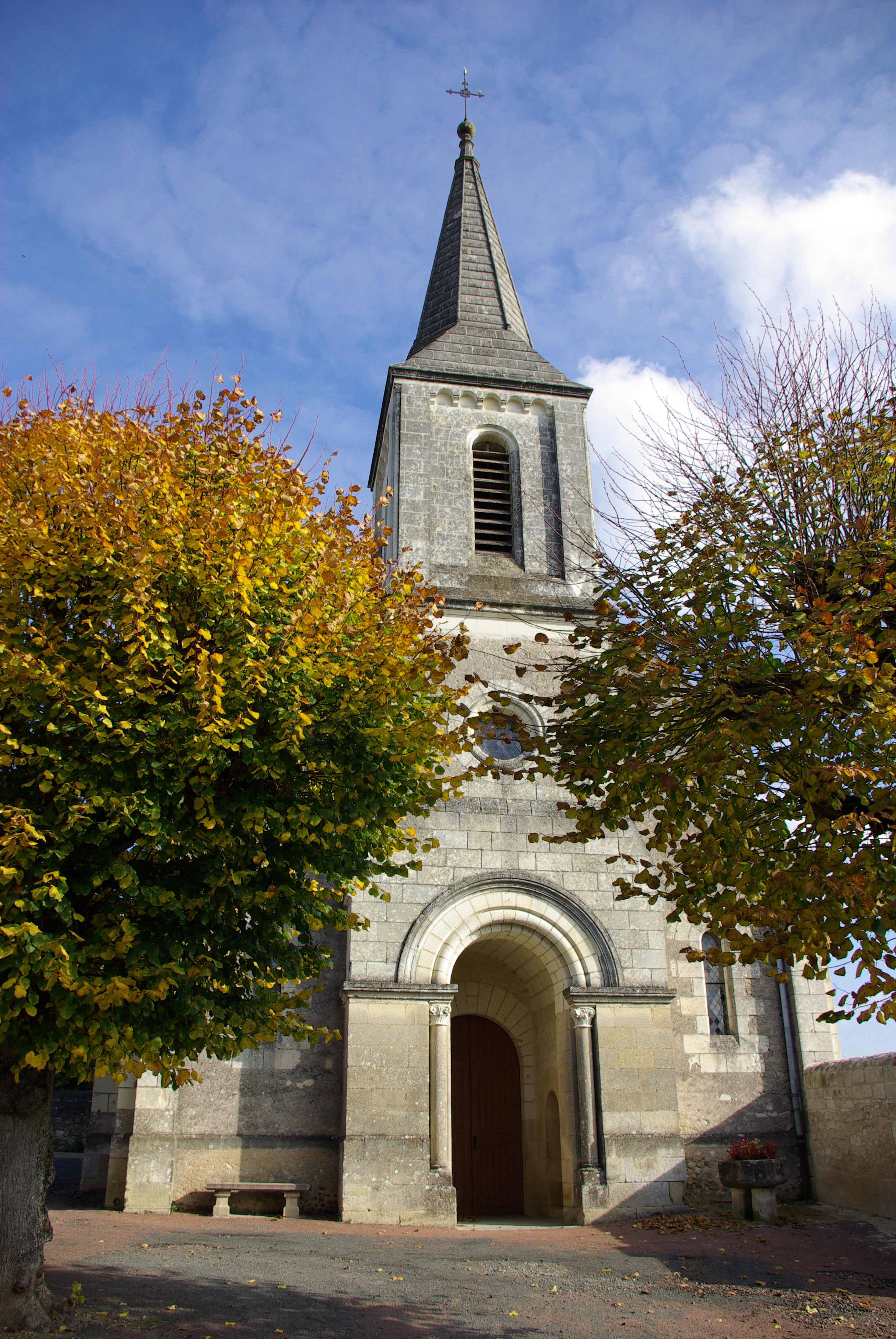 Church of Saint-Michel-sur-Loire